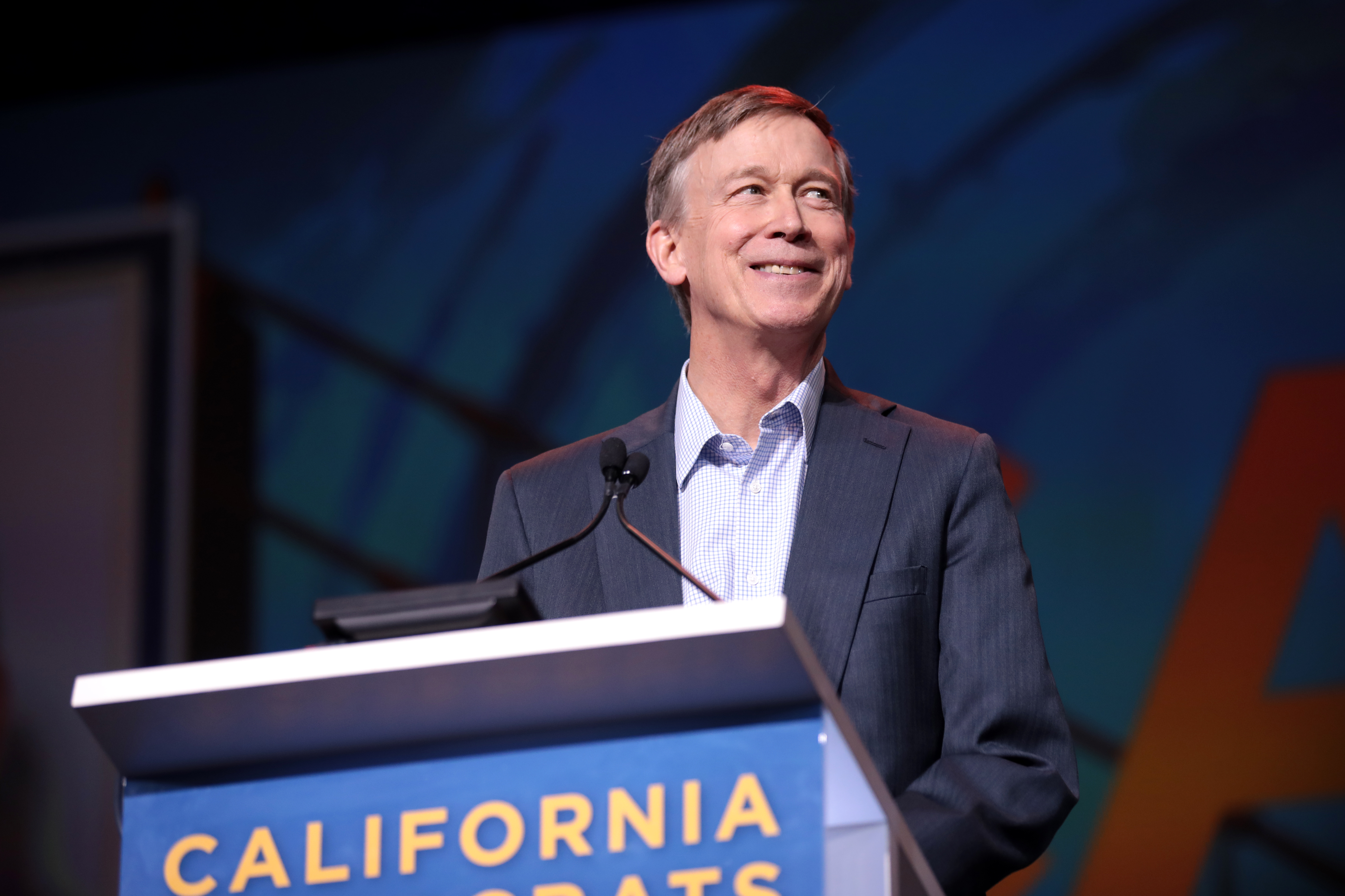 Former Governor John Hickenlooper speaking with attendees at the 2019 California Democratic Party State Convention at the George R. Moscone Convention Center in San Francisco, California.